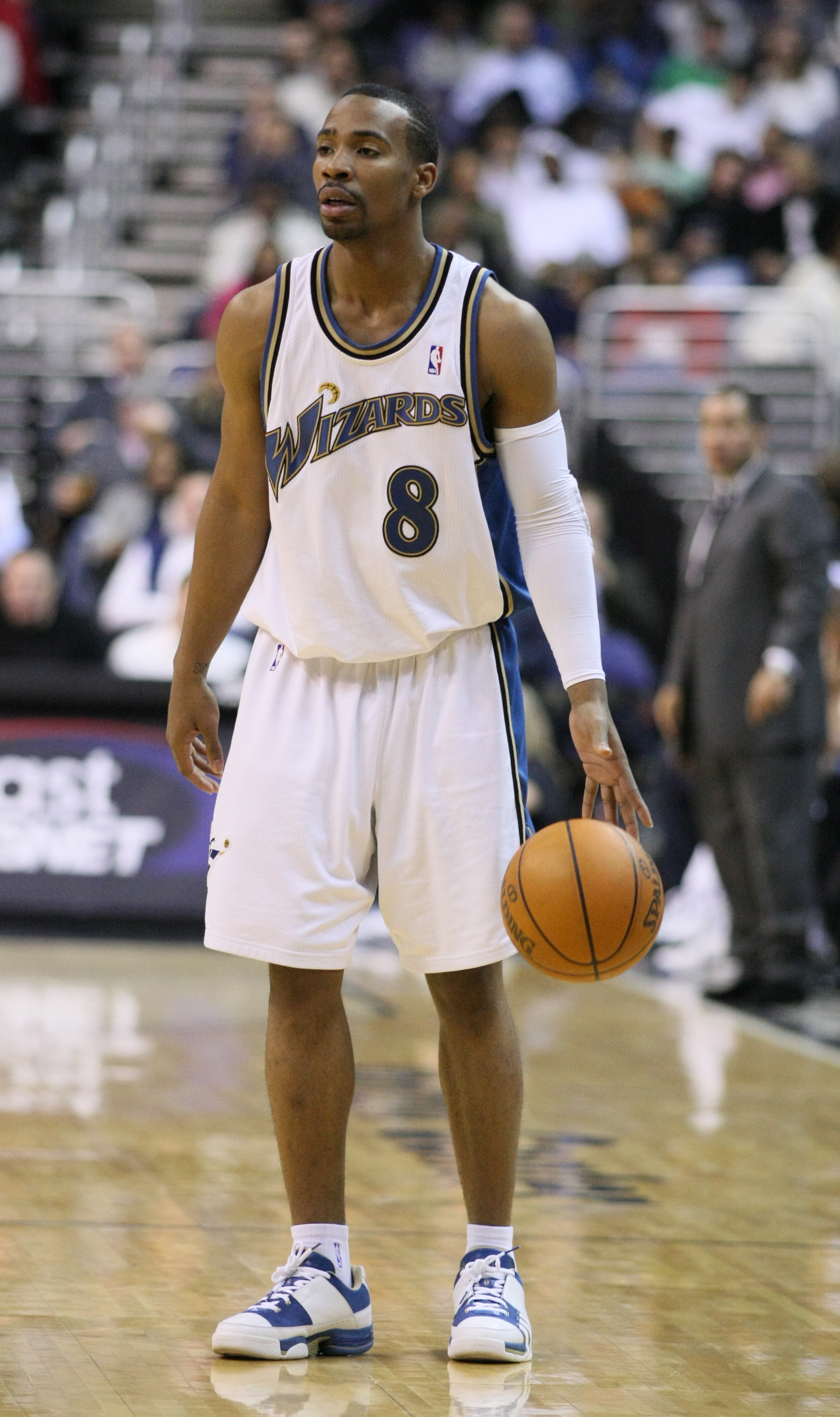 Javaris Crittenton playing with the Washington Wizards